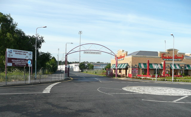 Football and fast food They go together by the gates of Glanford Park, the home of Scunthorpe United.